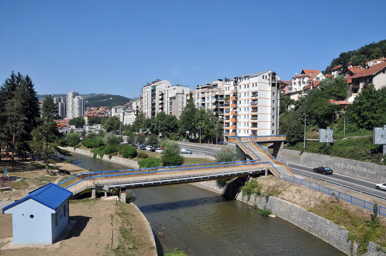 A city in Serbia (possibly Užice), not Valjevo